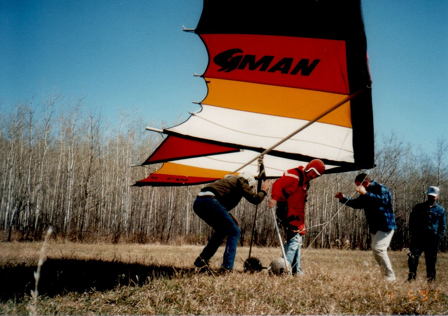 A Birdman MJ-5 hanglider